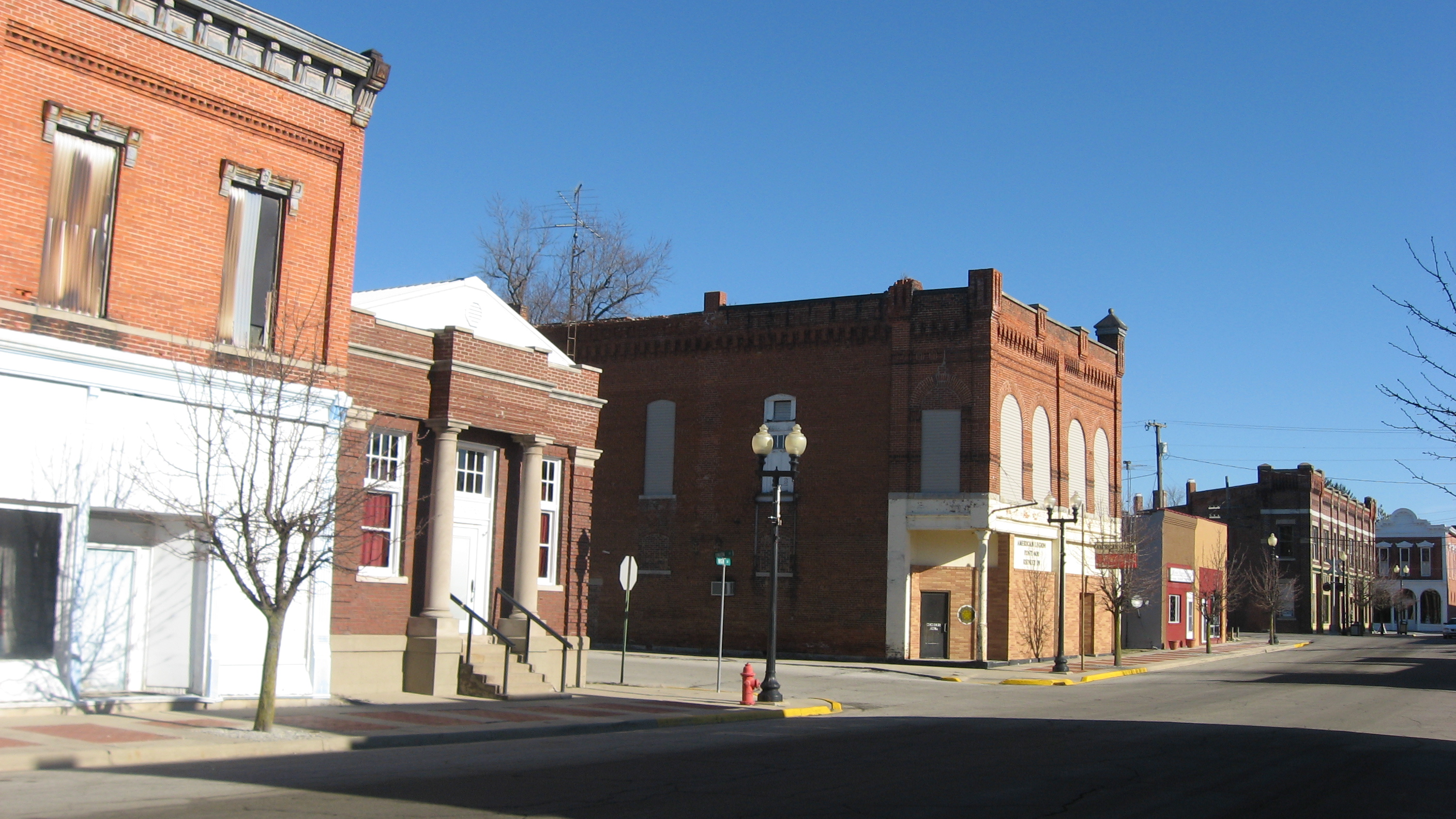 Buildings on the northern corners of the intersection of High and Union Streets in downtown Portland, Indiana, United States. This block is part of the Redkey Historic District, a historic district that is listed on the National Register of Historic Places.